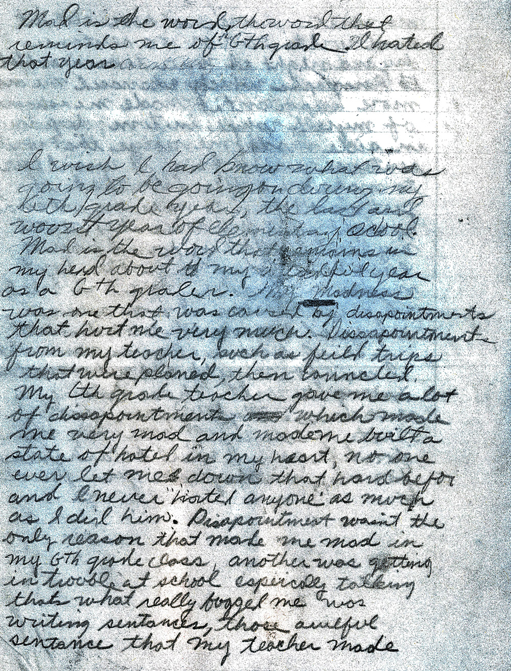 Front side of "Mad is the Word" document discovered during the Original Night Stalker investigation.